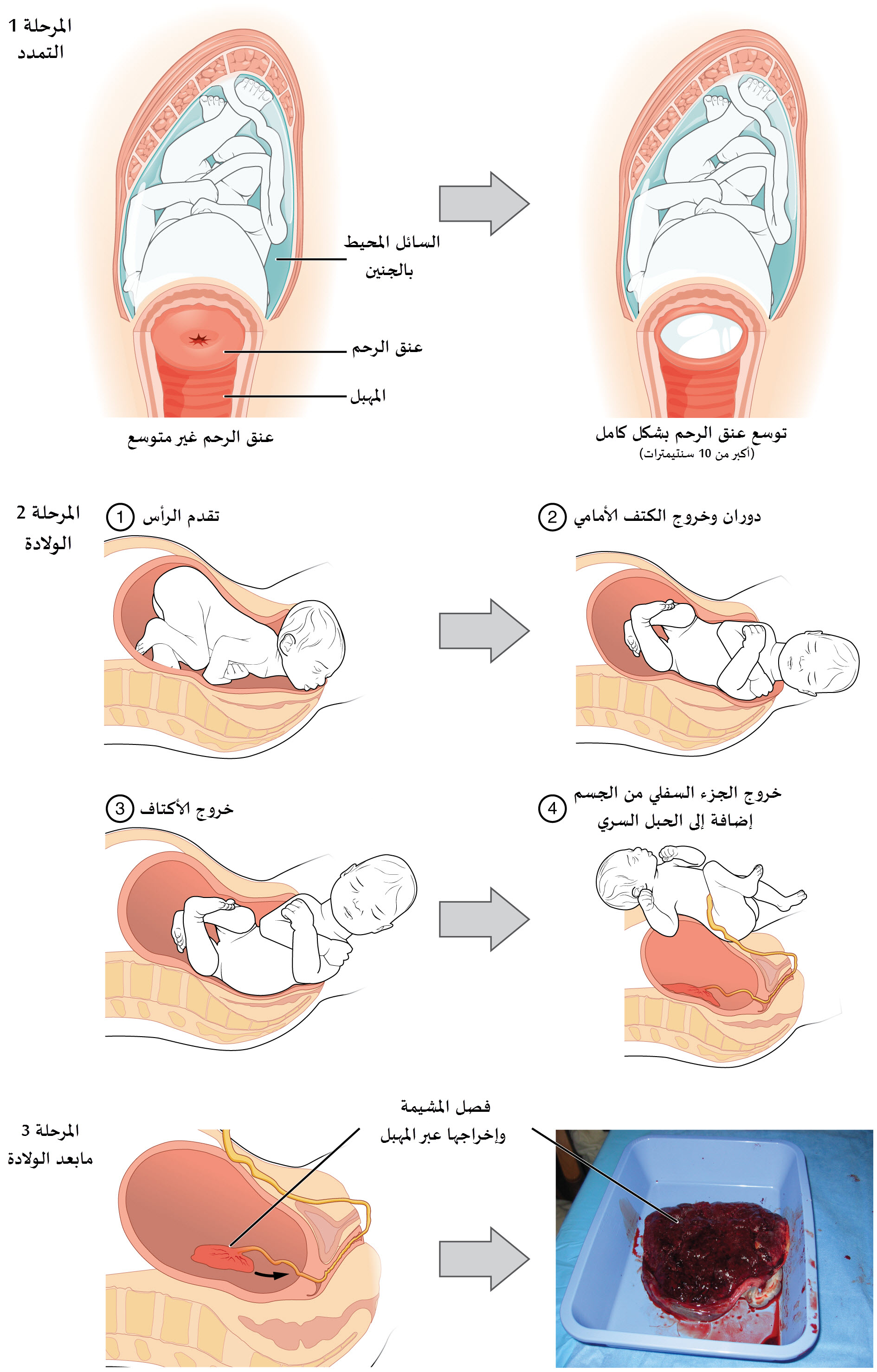 Stages of Childbirth